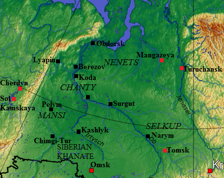 Main towns in West Siberia in 15-16 centuries